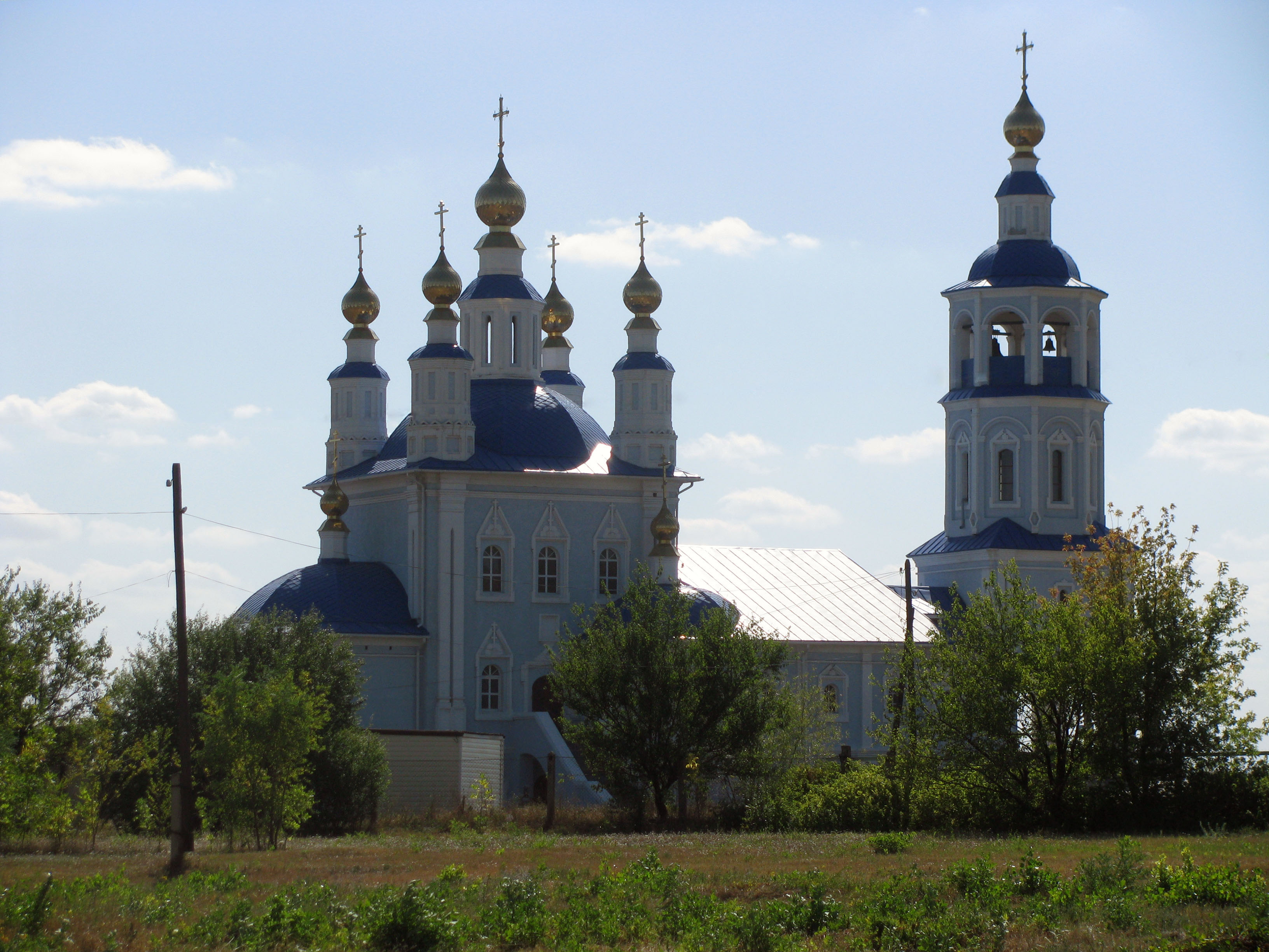 Church in Novoshakhtinsk (in front of city's duma)